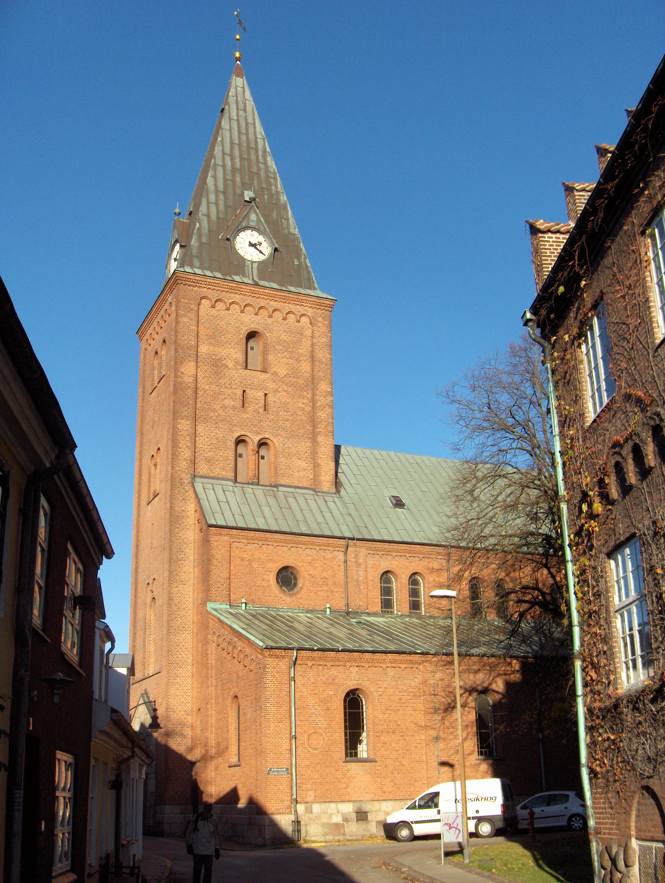 The church Vor Frue Kirke in Aalborg, DenmarkDansk: Vor Frue Kirke i Aalborg